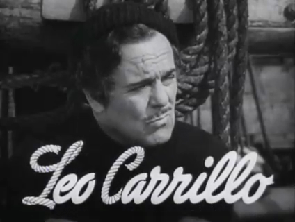 Leo Carrillo in Barnacle Bill, by Richard Thorpe (1941)